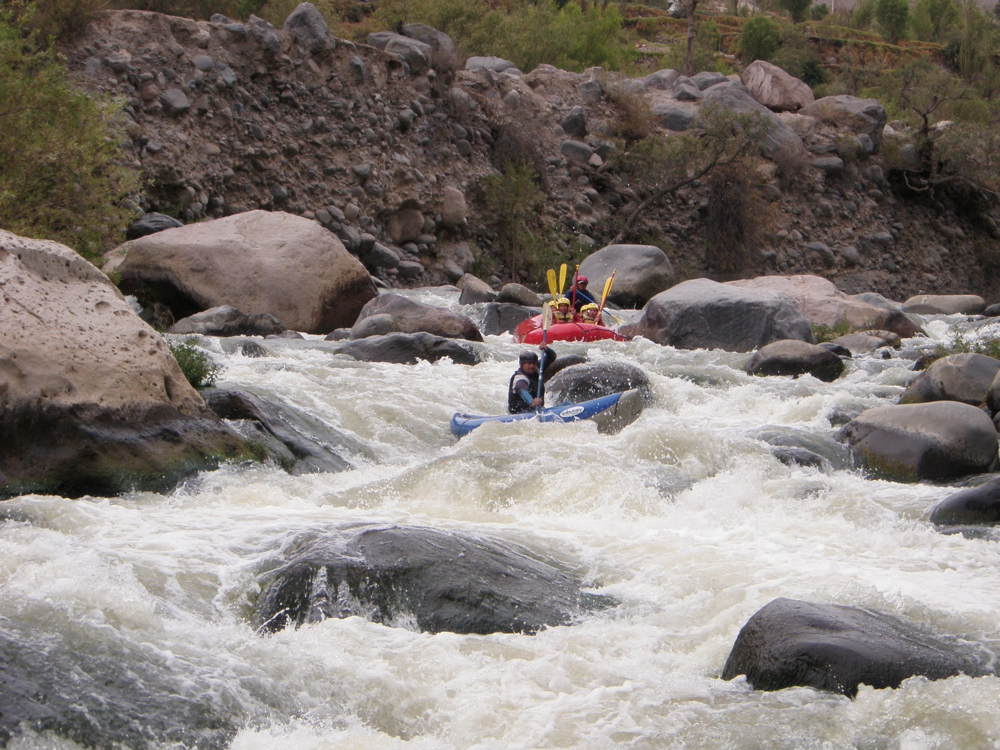 Chili River, Class III and IV section 'The Zetas'